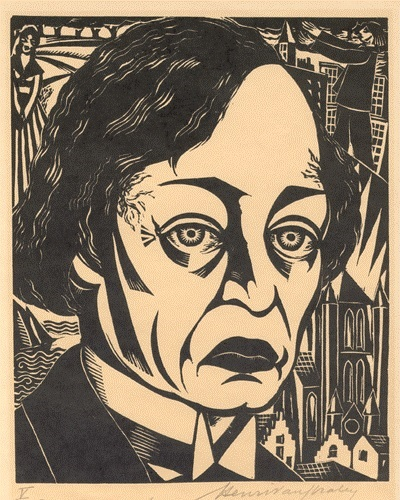 Portret van Karel van de Woestijne (1937) door Henri van Straten (1892 - 1944)